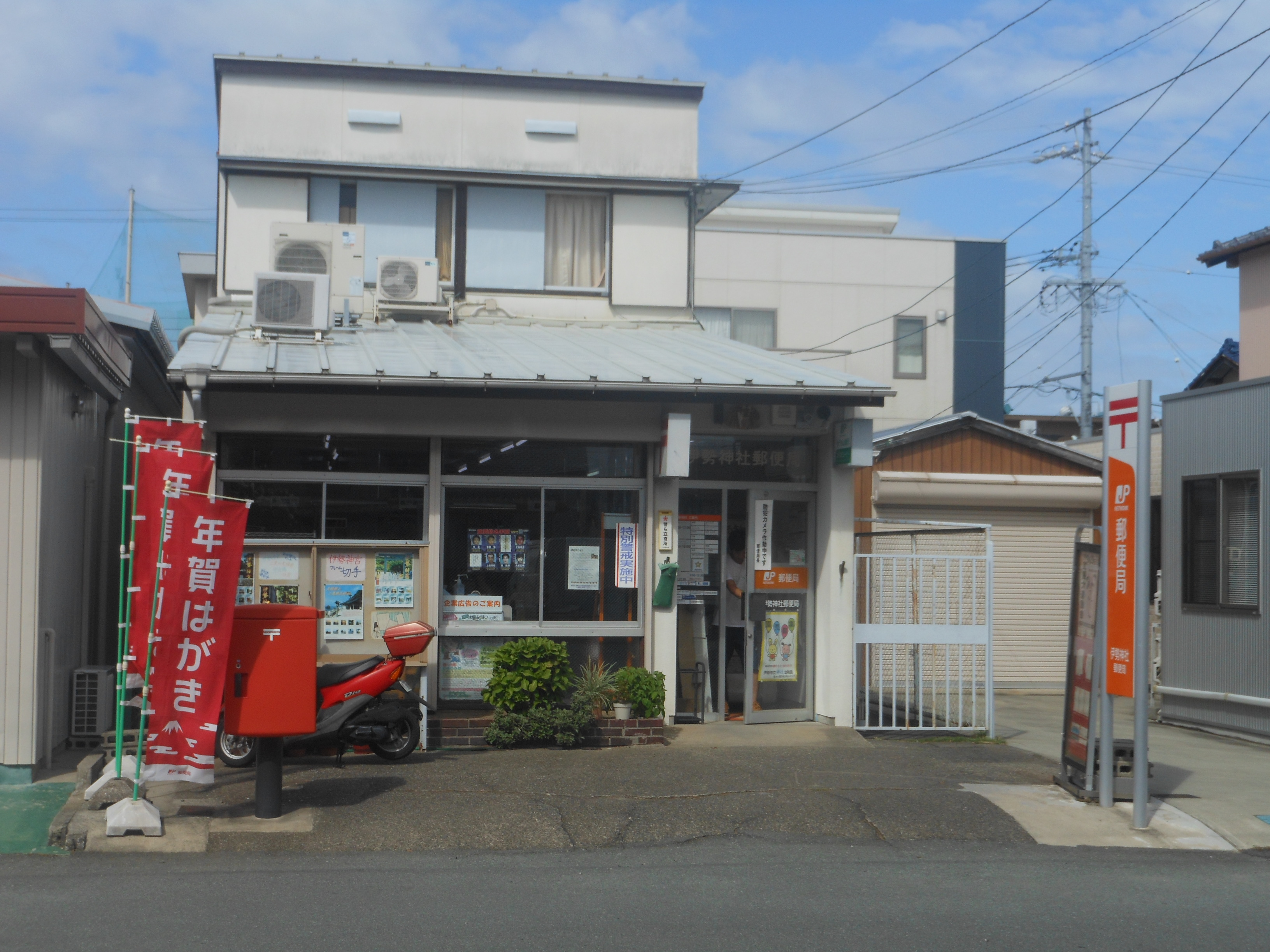 View of Ise-Kamiyashiro post office in Kamiyashiroko, Ise, Mie Prefecture